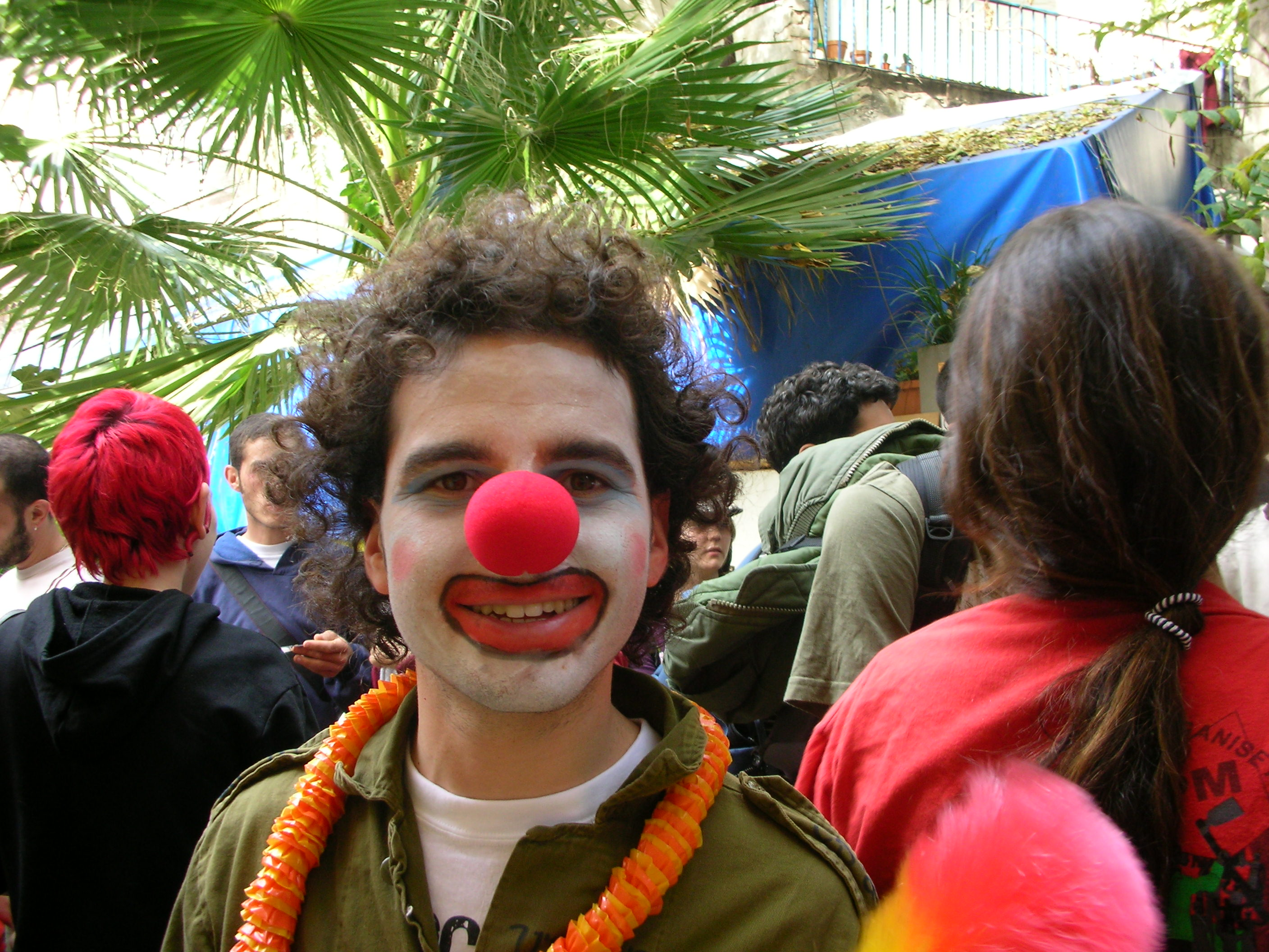 A picture of a clown taken by Doronef during CIRCA demonstrations